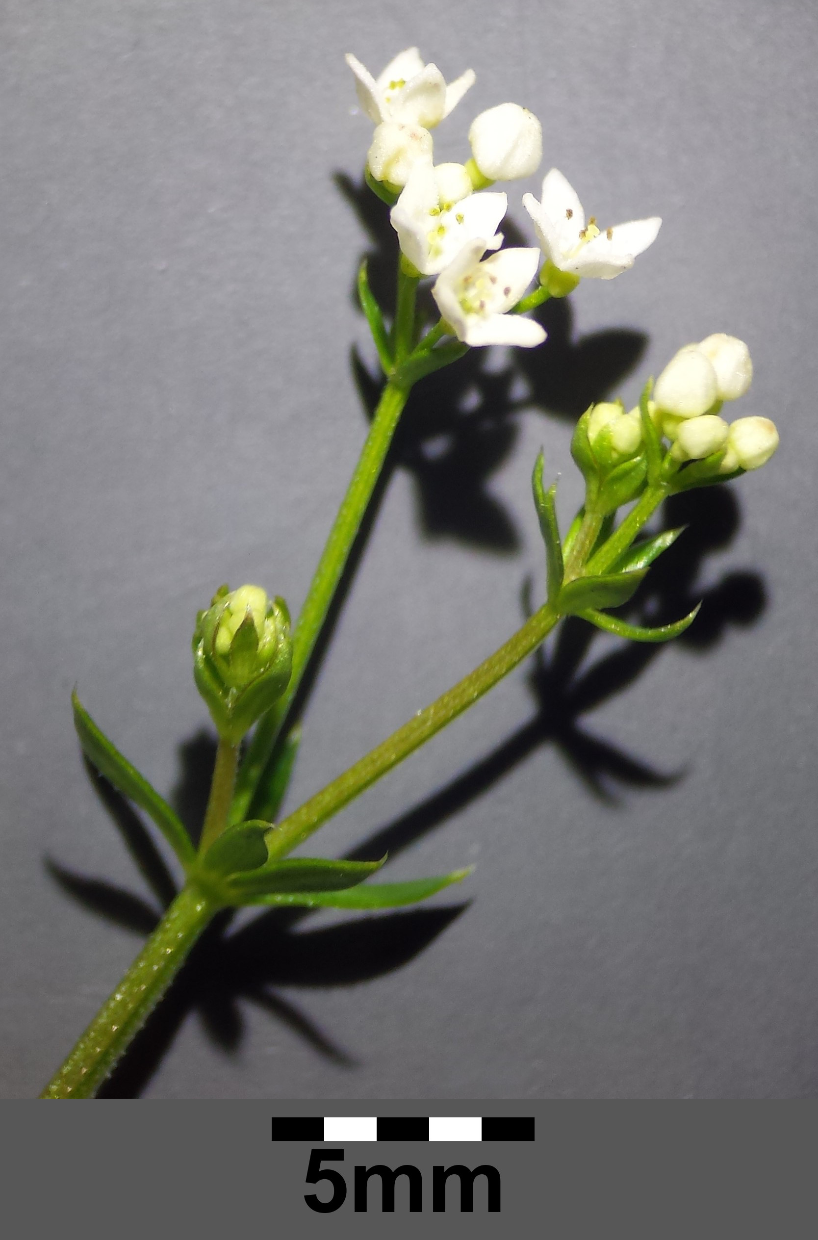 Inflorescence Taxonym: Galium uliginosum ss Fischer et al. EfÖLS 2008 ISBN 978-3-85474-187-9 Location: near Komau, district Freistadt, Upper Austria - ca. 850 m a.s.l. Habitat: brookside